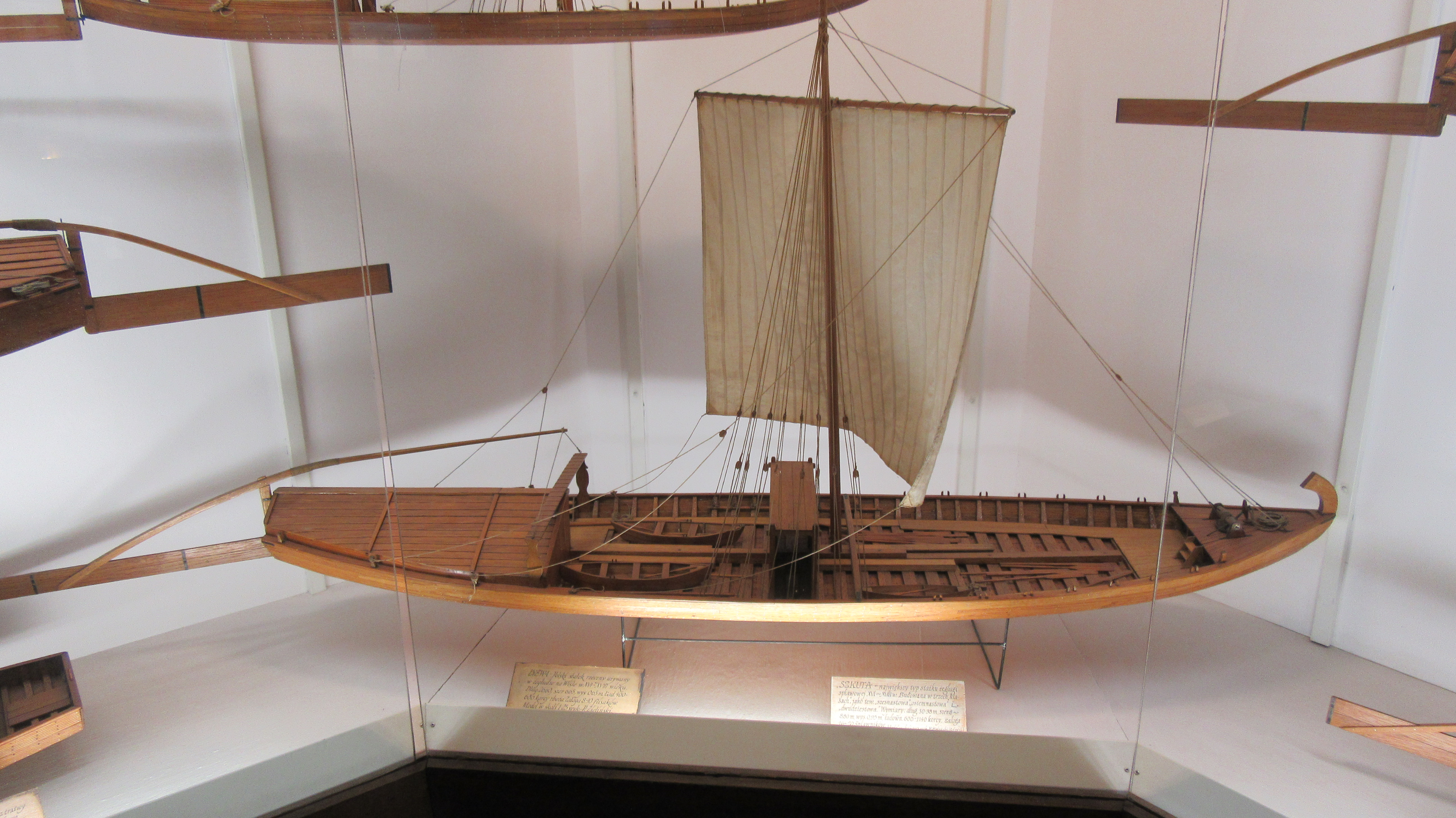 Model of szkuta - vessel used on Vistula River in XVI-XVIII century. Exhibit in National Maritime Museum in Gdańsk, Poland.